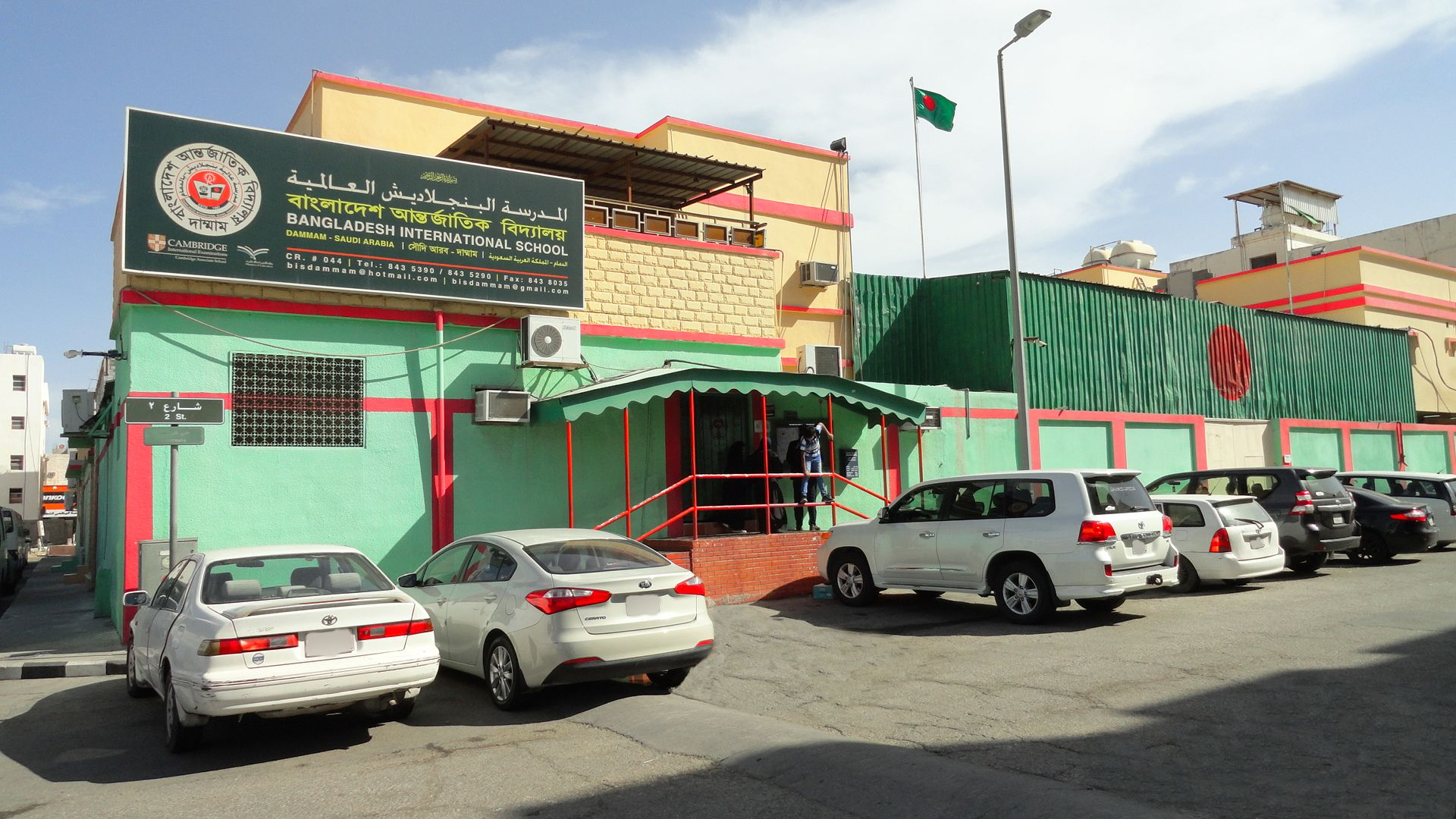 This is the image of the school "Bangladesh International School,Dammam" This is the Boys side of the school.